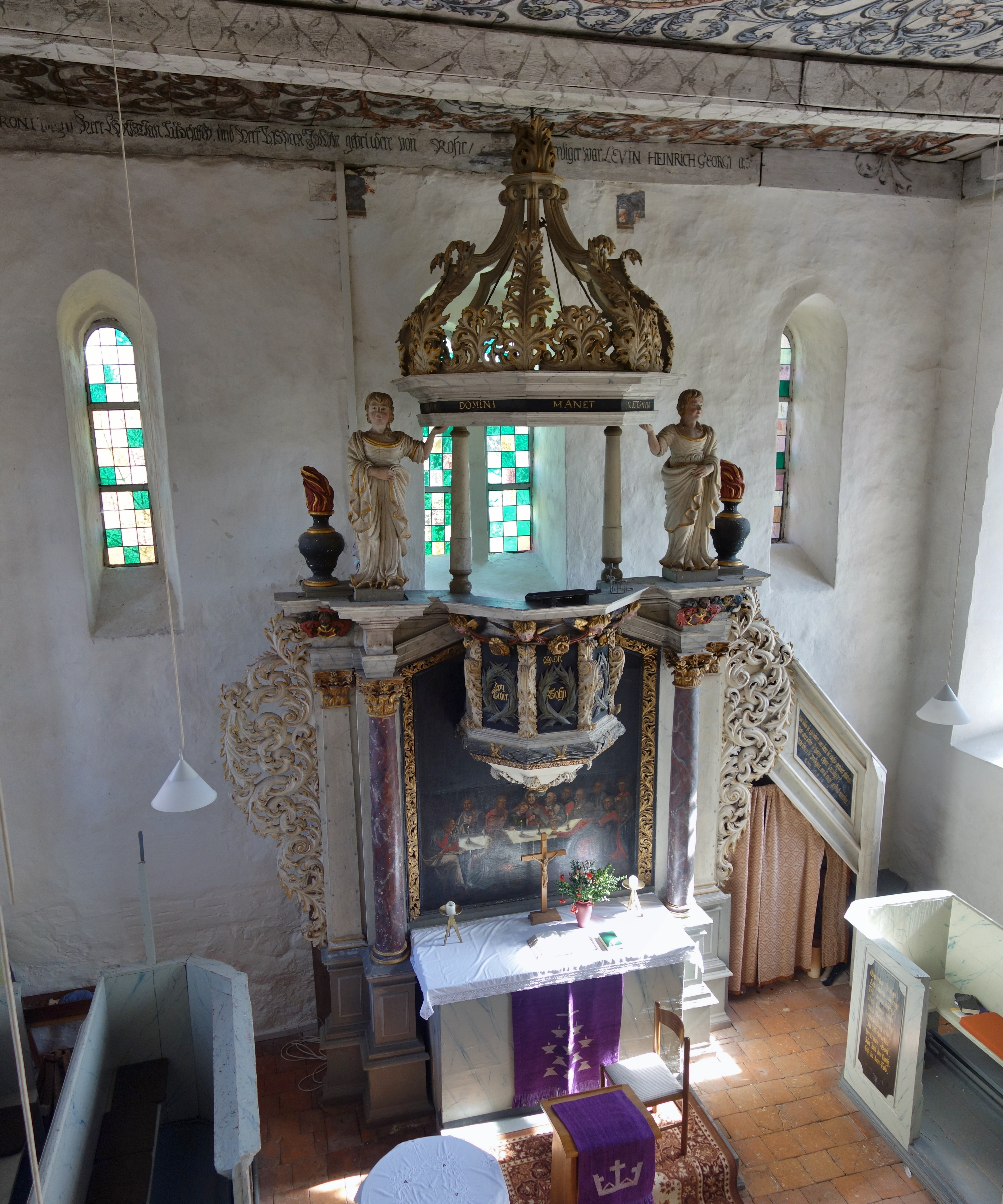 Pulpit altar of church in Zernitz, Zernitz-Lohm municipality, Ostprignitz-Ruppin district, Brandenburg state, Germany